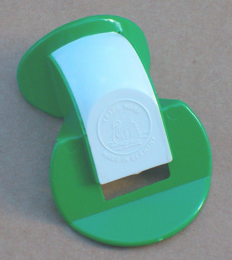 Plastic Nose whistle, front side. Bought in Germany, manufacturer unknown.